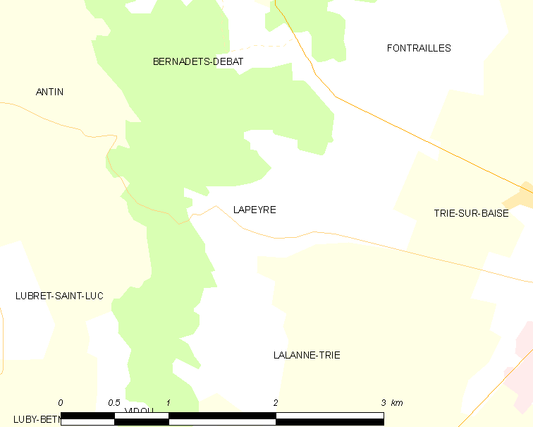 Map of French municipality